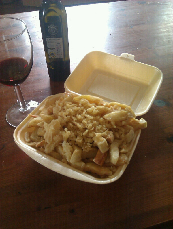 Chips with Scraps garnish